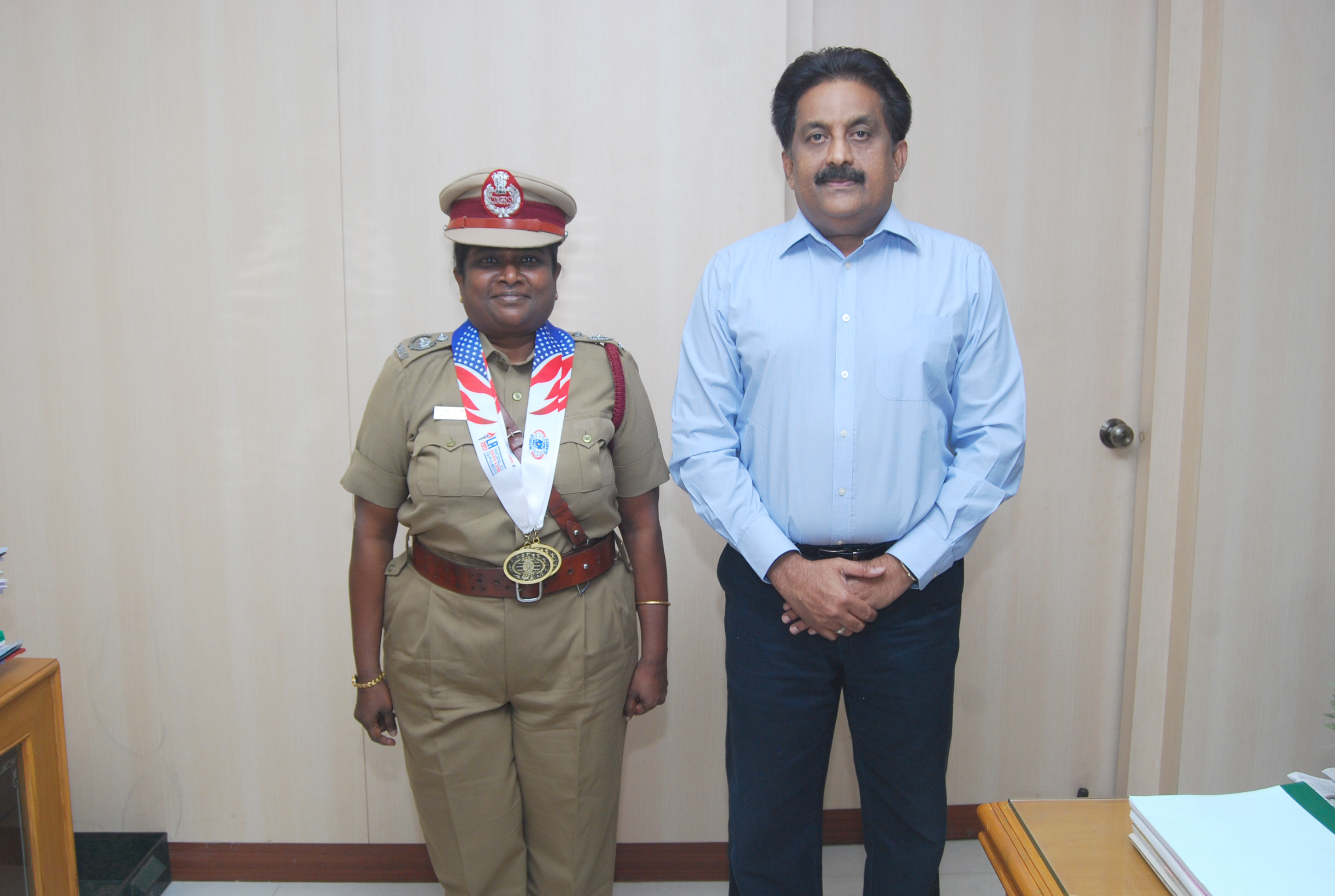 Appropriated by DGP George